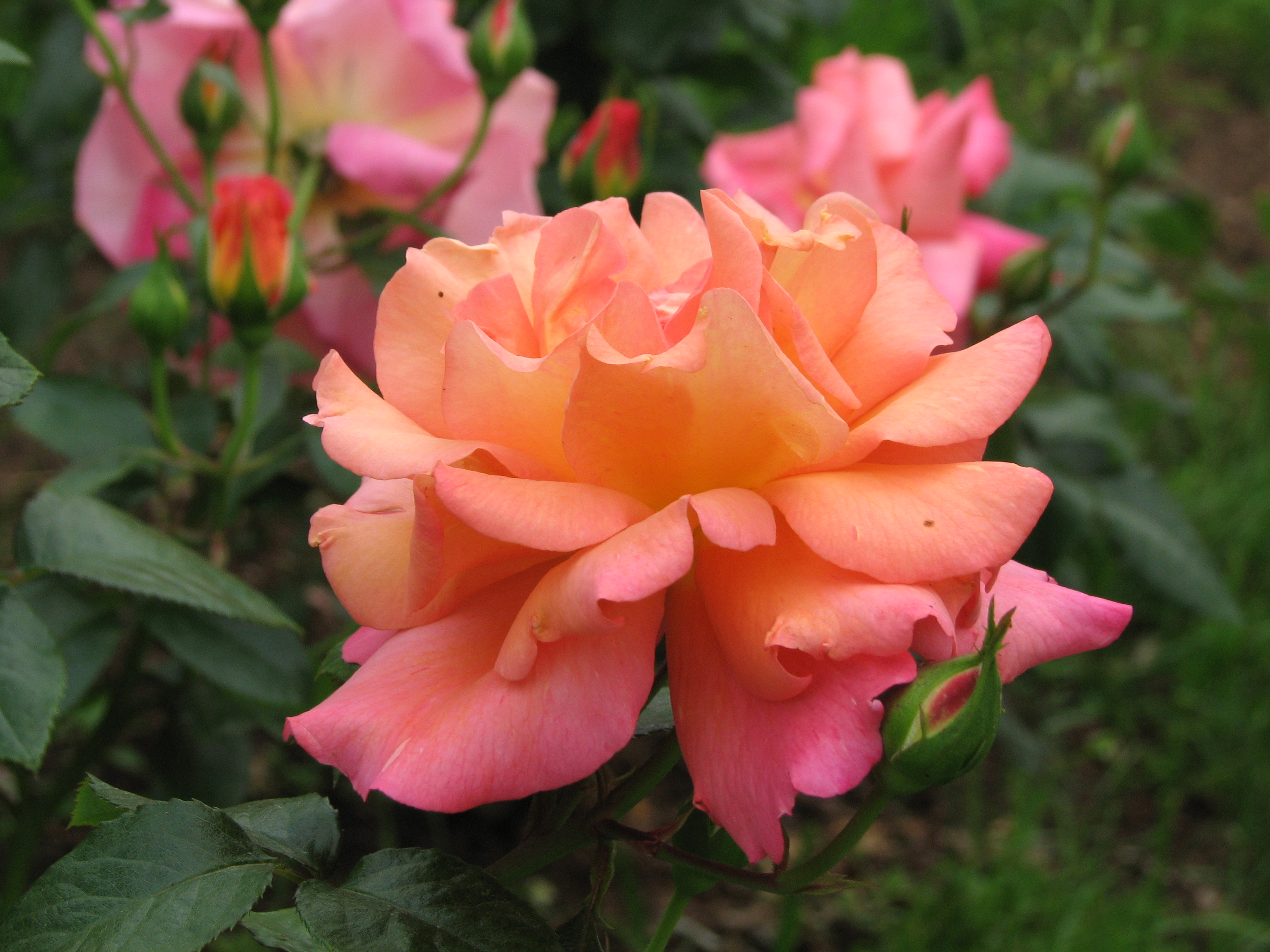 Rosa 'Freisinger Morgenrote' (Kordes, 1988). From the collection of the Main Botanical Garden of Academy of Sciences in Moscow (Rosarium).